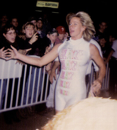 Alundra Blayze (real name Debra Miceli) at a WWF event in 1995